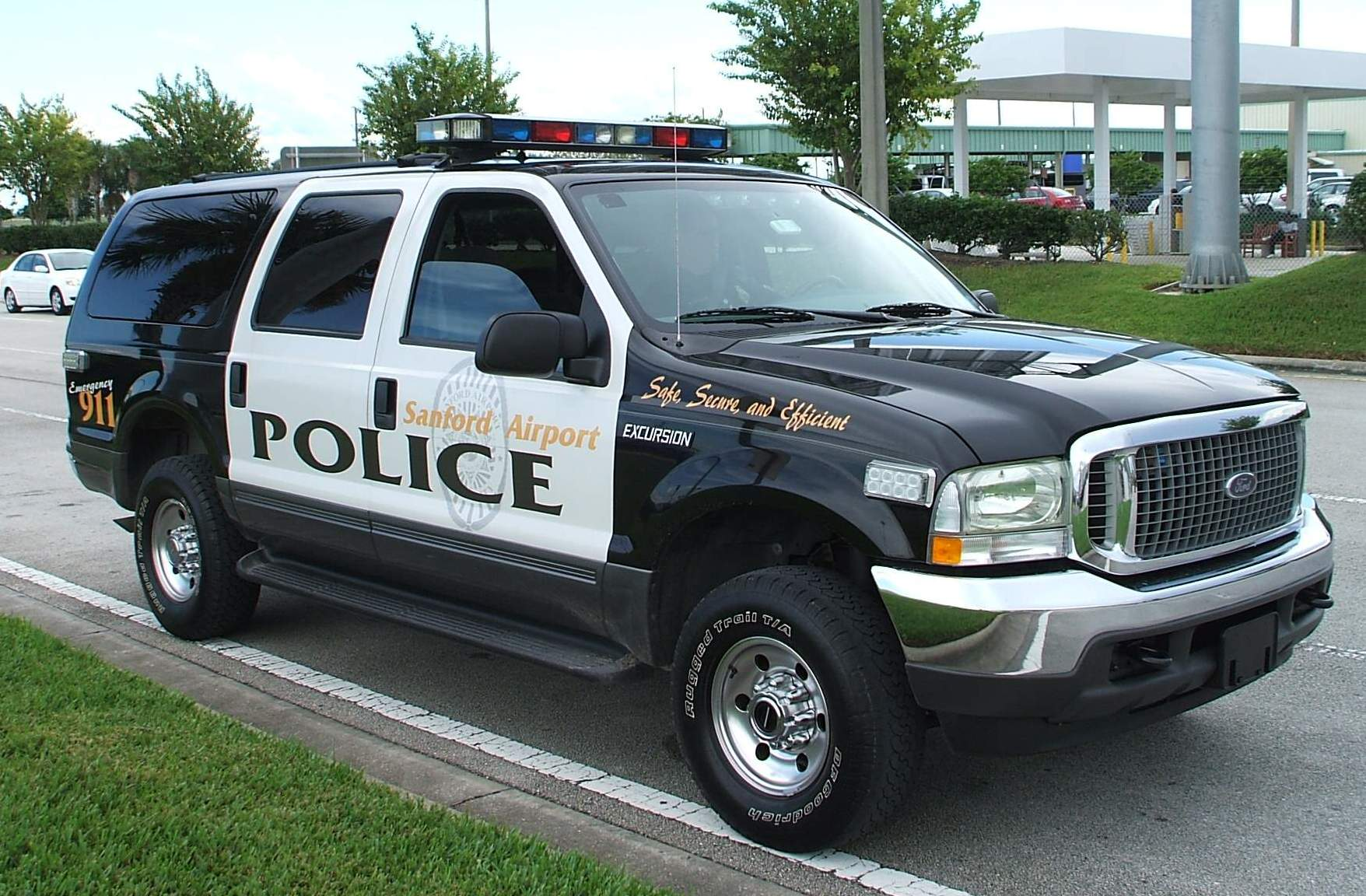 Superb machine! Ford Excursion with an obliging officer inside